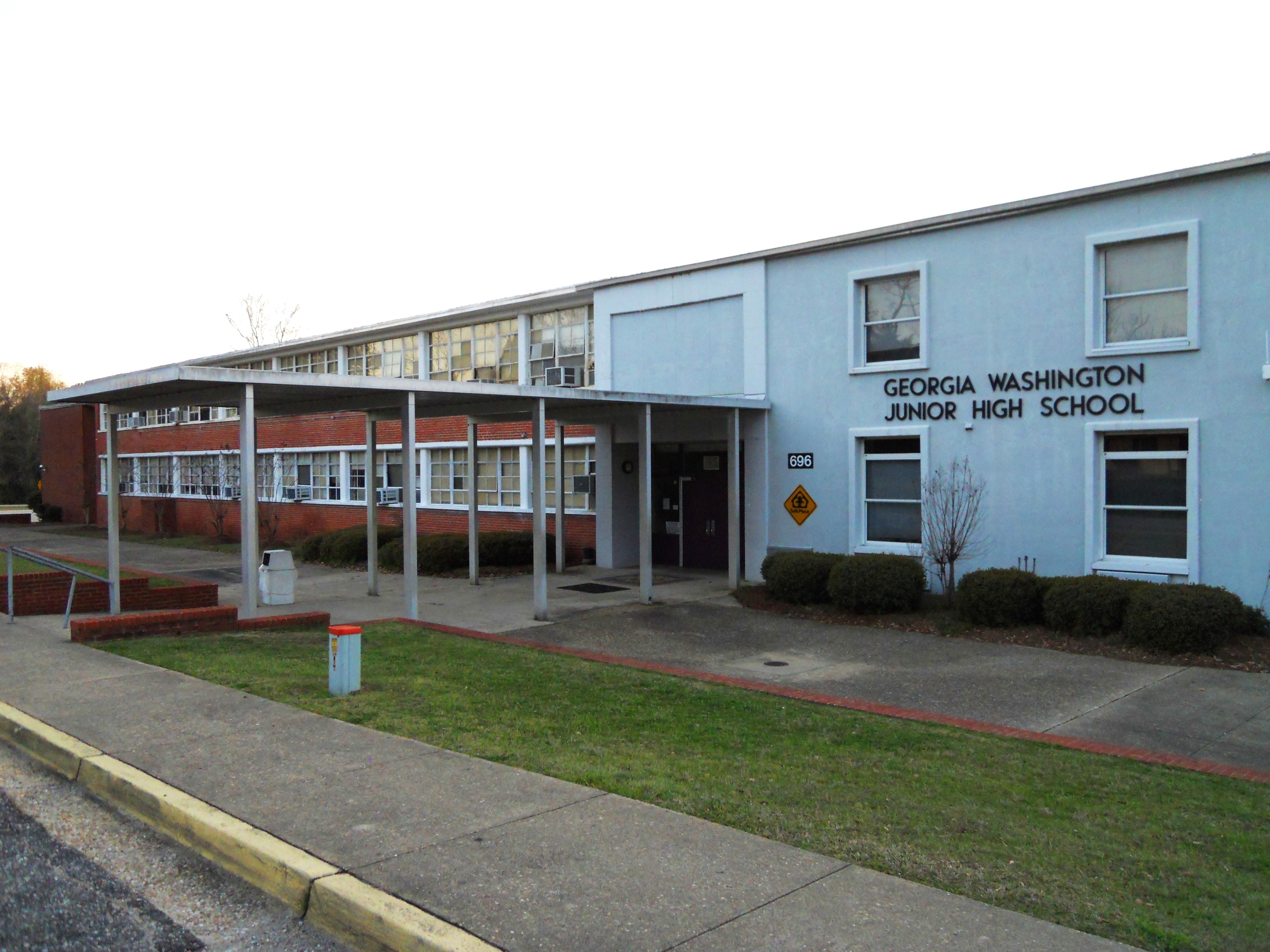 This is a photograph of Georgia Washington Junior High School located in Mount Meigs, Alabama near Pike Road.